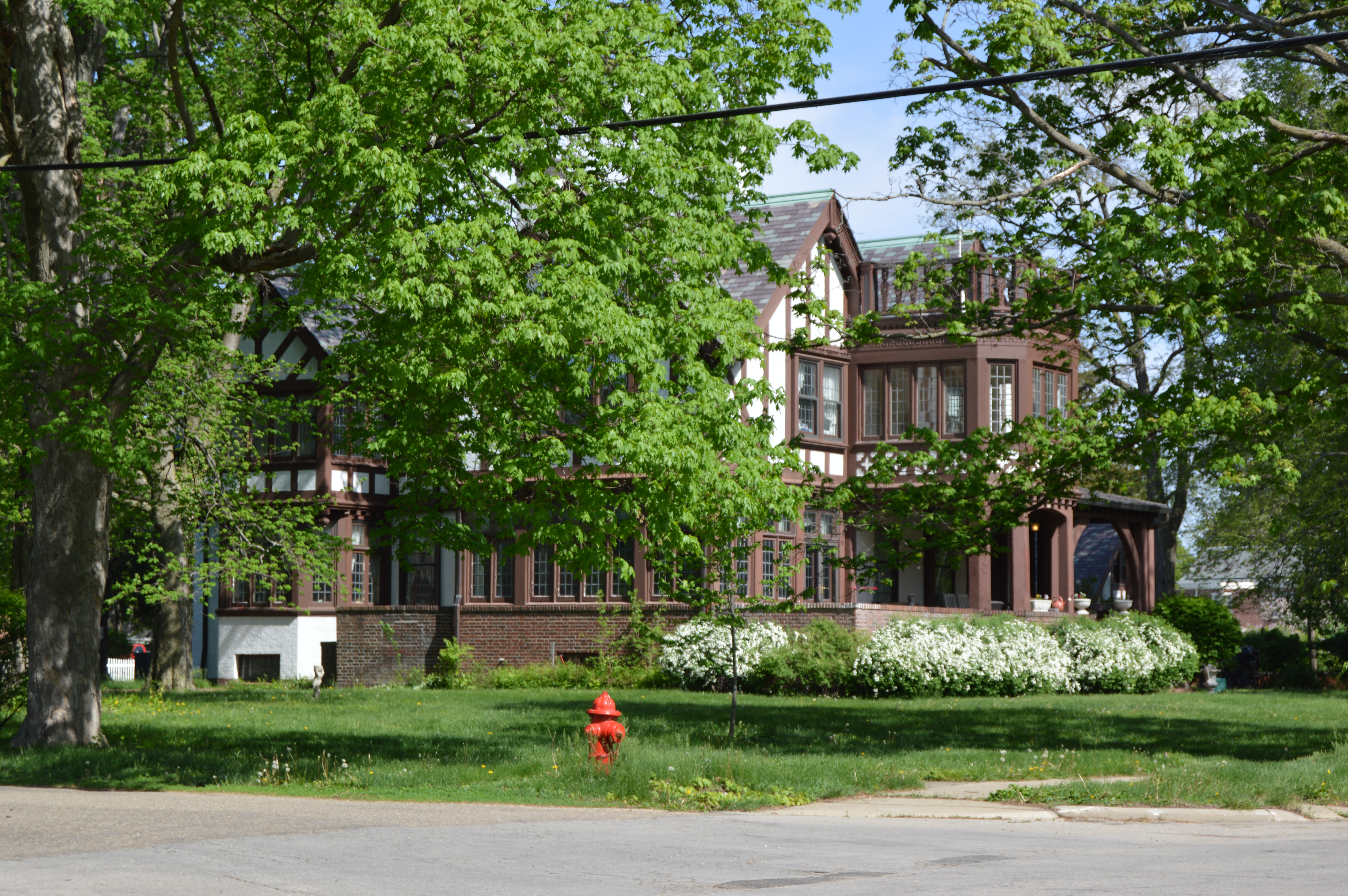 Front of the house at 712 N. State Street in Monticello, Illinois, United States. Built in 1906, it is part of the North State Street Historic District, a historic district that is listed on the National Register of Historic Places.